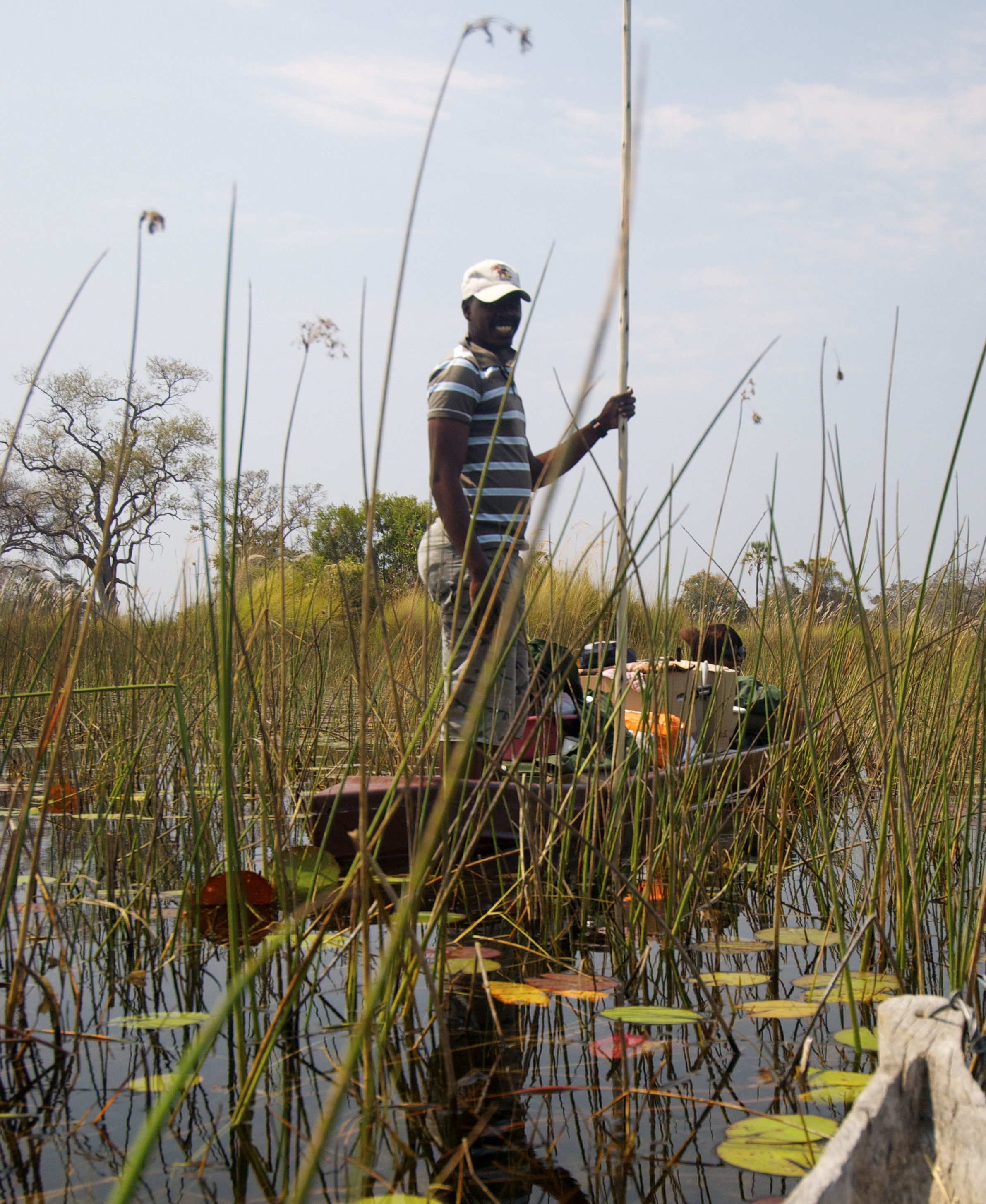 Native guide, poling his makoro (dug-out wooden canoe) in Okavango Delta